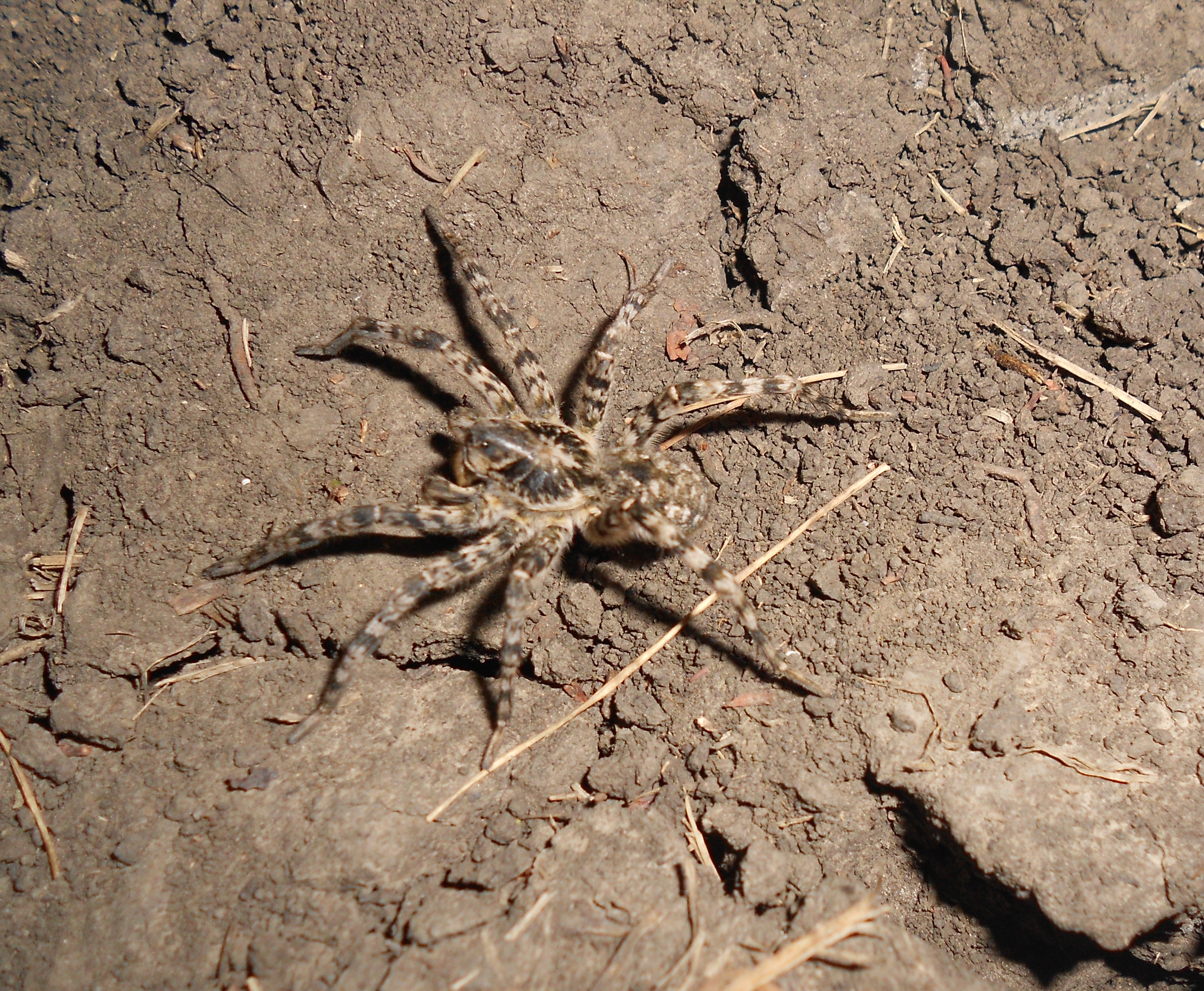 Lycosa singoriensis